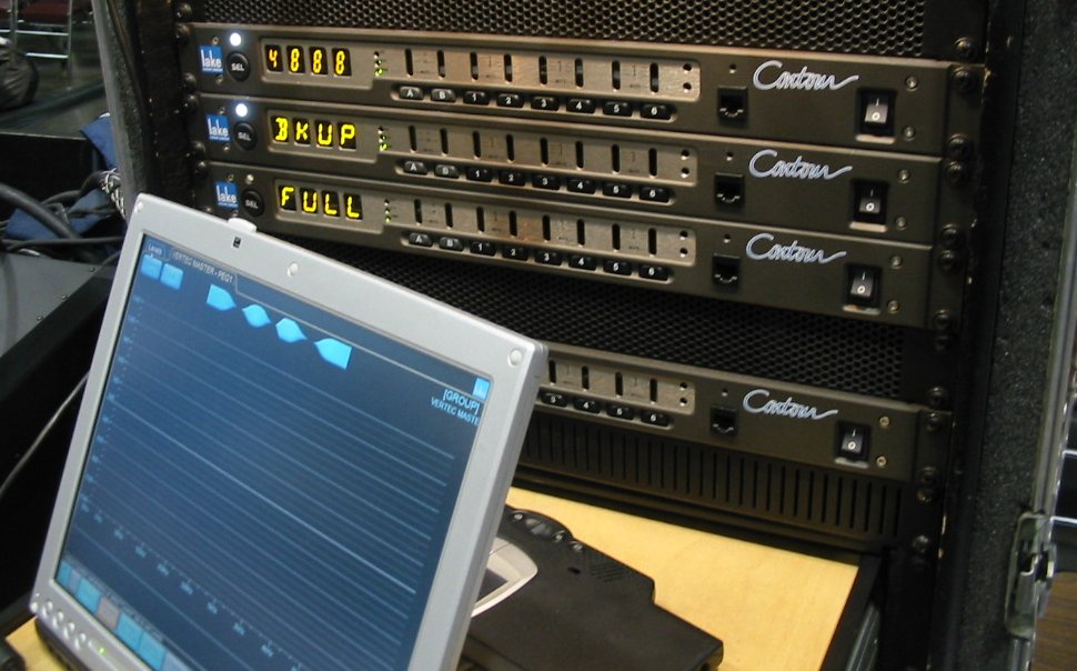 Four Lake Contour digital signal processors, used as active crossovers, delay and equalization for concert sound system loudspeakers. The graphic user interface is a wireless touchscreen computer. Dolby Lake Contour digital loudspeaker processors